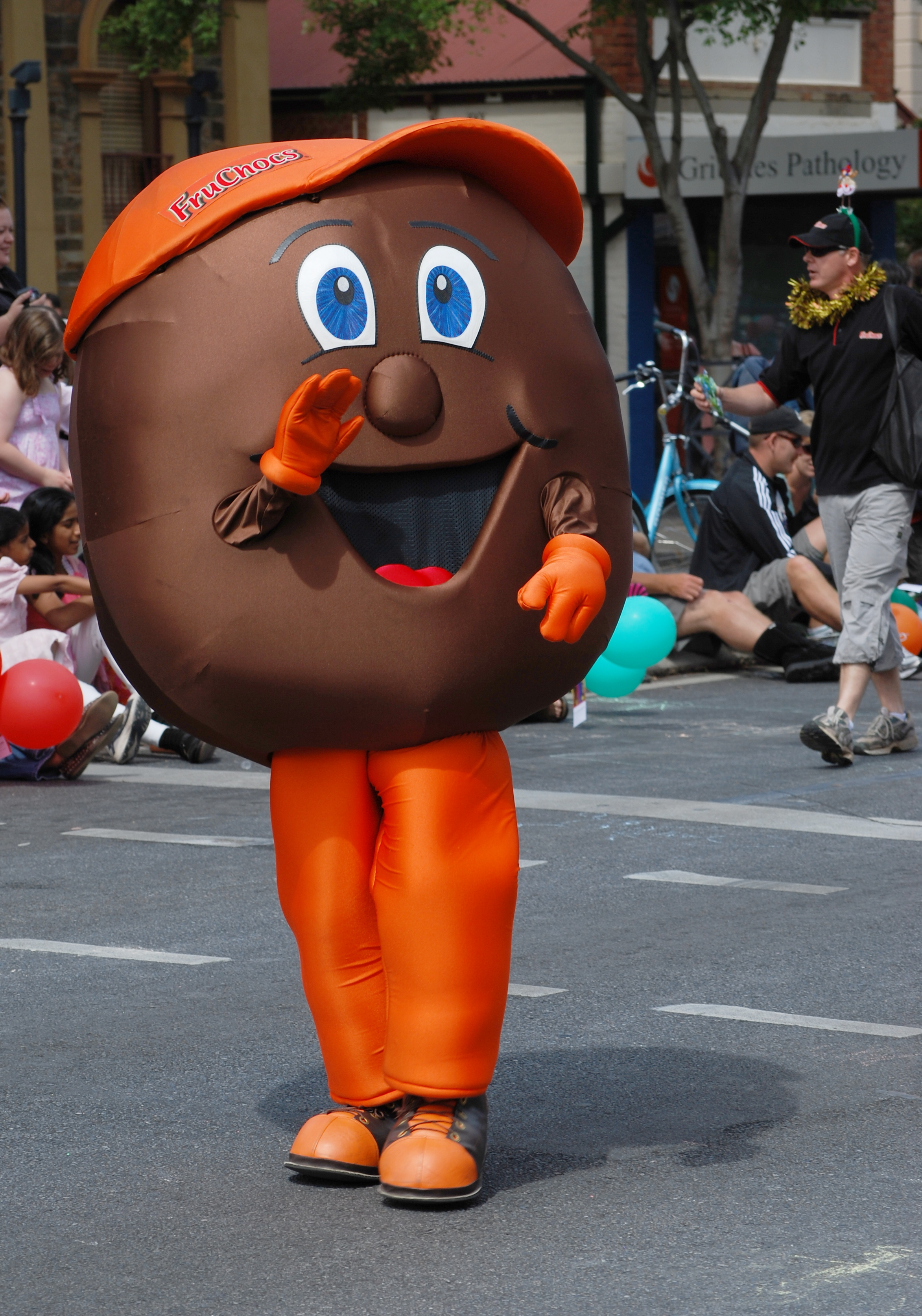 person in a "Fruchocs" suit, 2008 Norwood Christmas Pageant, Adelaide, South Australia